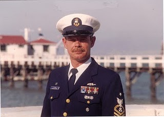 Richard Dixon, US Coastguard coxwain. Original caption: “Richard Dixon, a Boatswain's Mate stationed at Tillamook Bay, was awarded two Coast Guard Medals for his heroic actions on July Fourth weekend, 1980. U.S. Coast Guard photo.”